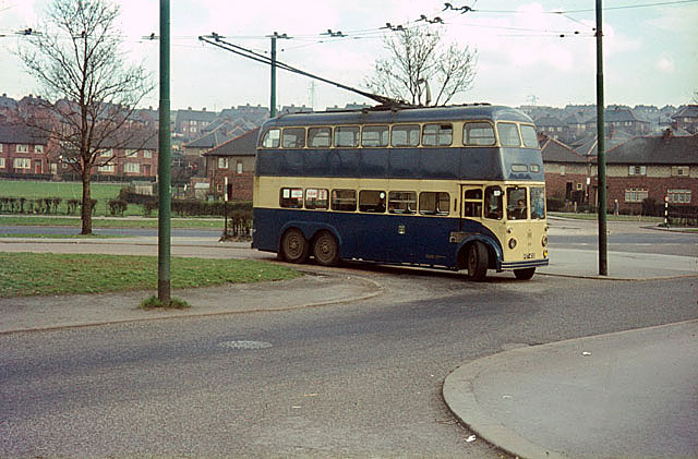 British Trolleybuses - Rotherham Pumping Station was the name used for this intermediate turn-back on the route between Rotherham and Thrybergh. It was at the end of a short branch off the main route and was basically only used for a few journeys at peak periods. The council housing estate in the background remains unchanged.